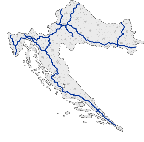 Highway net of Croatia